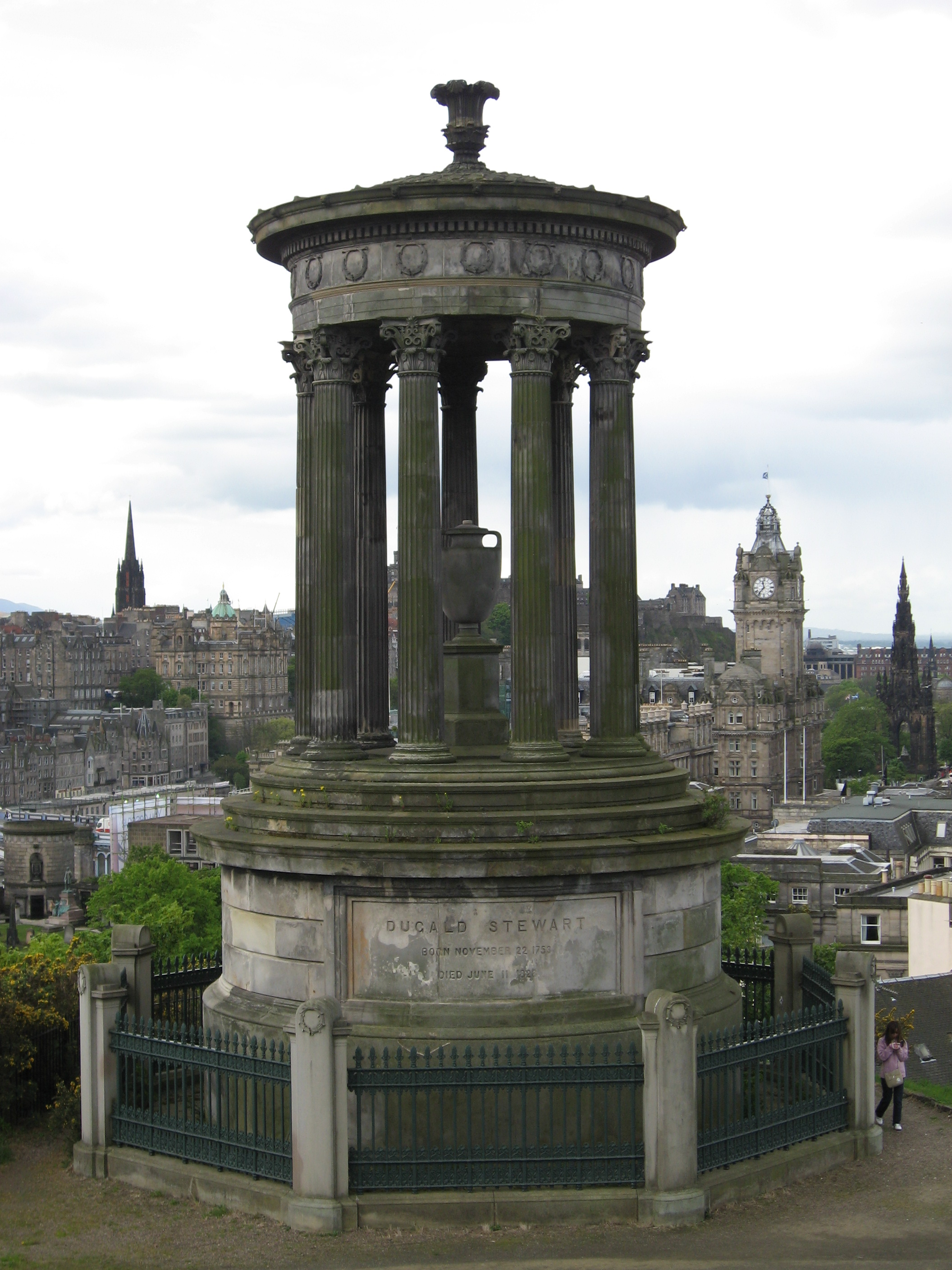 The Dugald Stewart Monument, Calton Hill, Edinburgh, UK. Photo taken by Alan Ford, 2006-05-25.